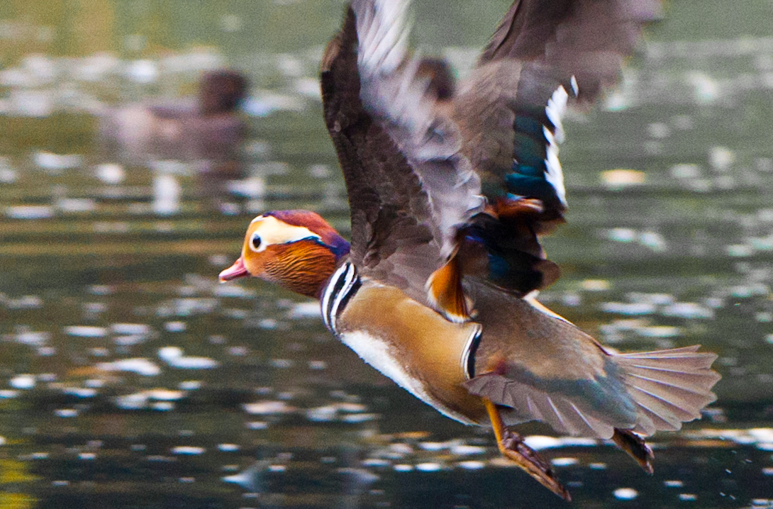 A male Mandarin Duck flying at Bushy Park, Terenure, Dublin, Ireland. It has just taken off from the pond.